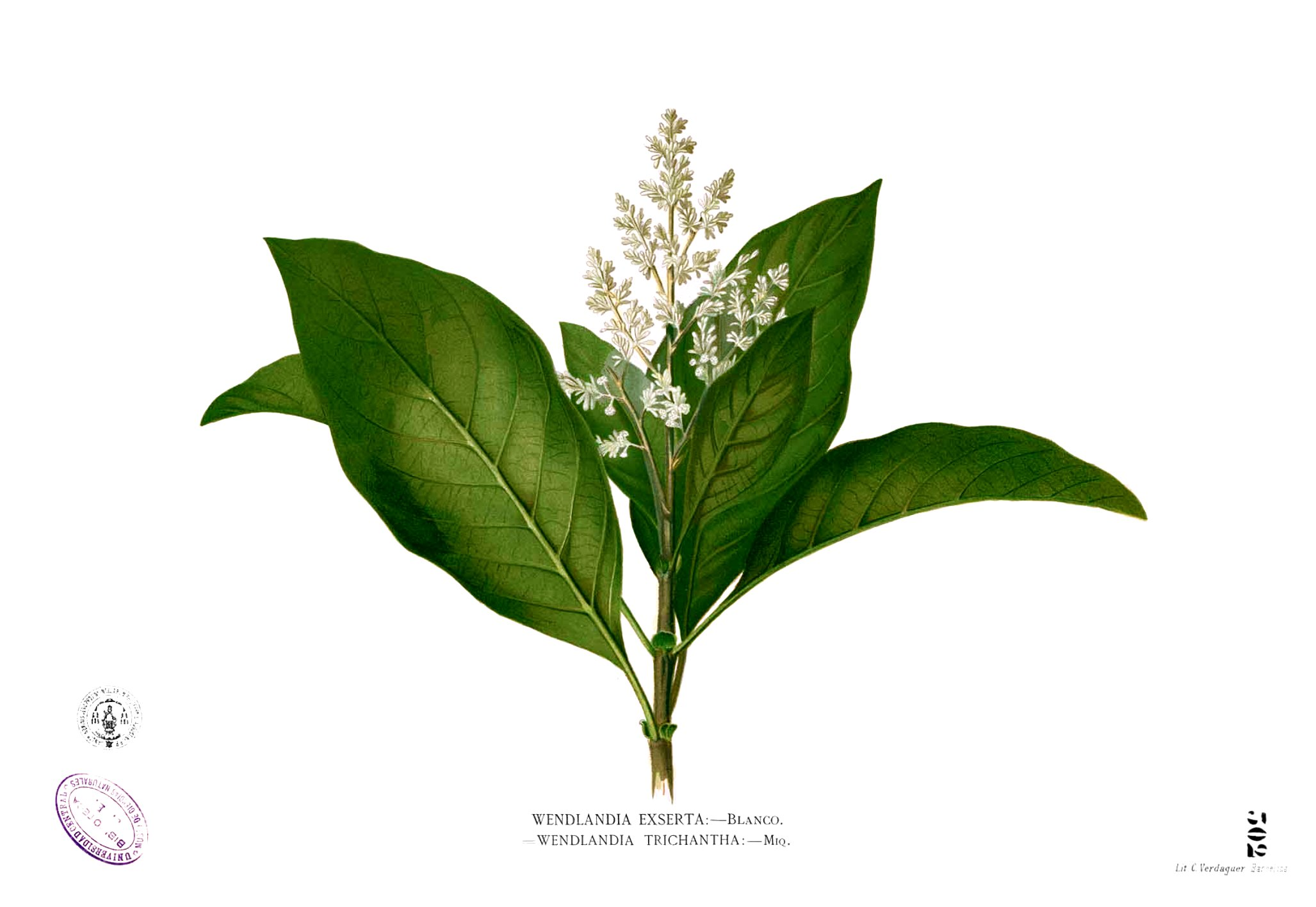 Wendlandia luzoniensis Plate from book